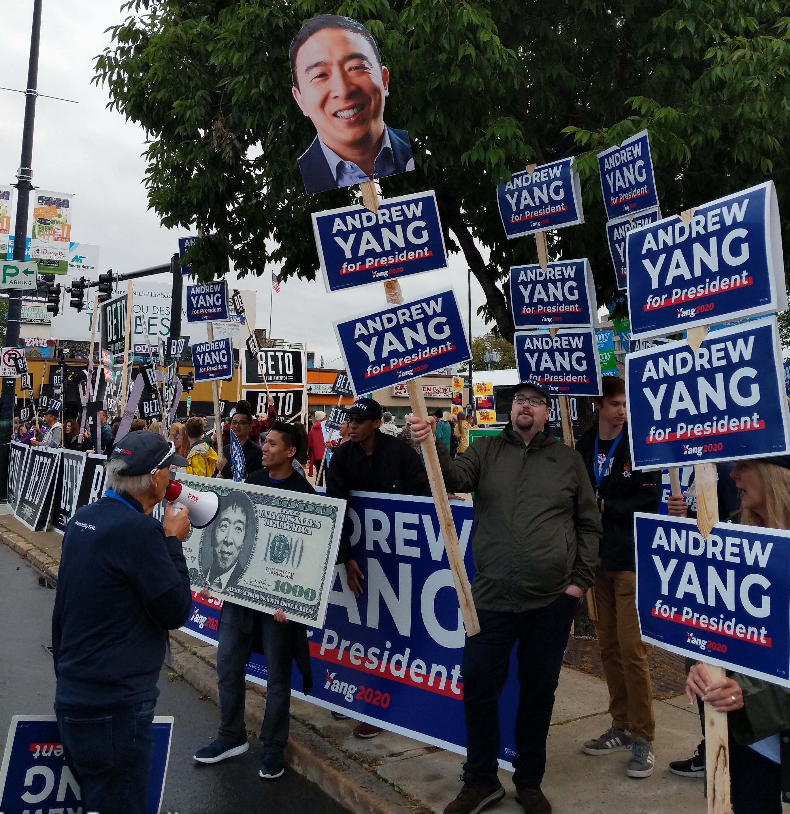 Andrew Yang presidential campaign, 2020 in New Hampshire